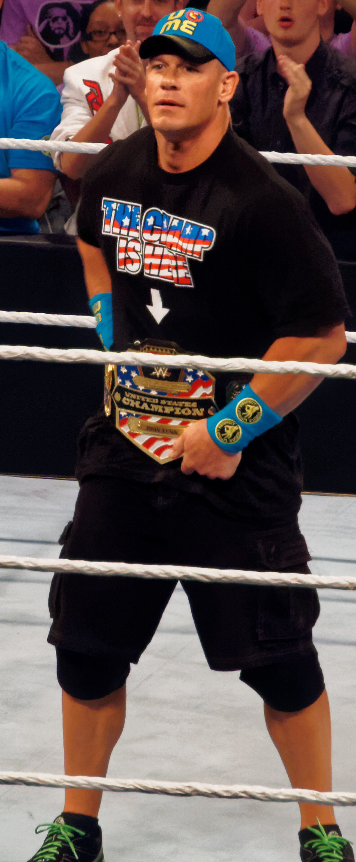 The raw everyboding is waiting for ... The One after Wrestlemania